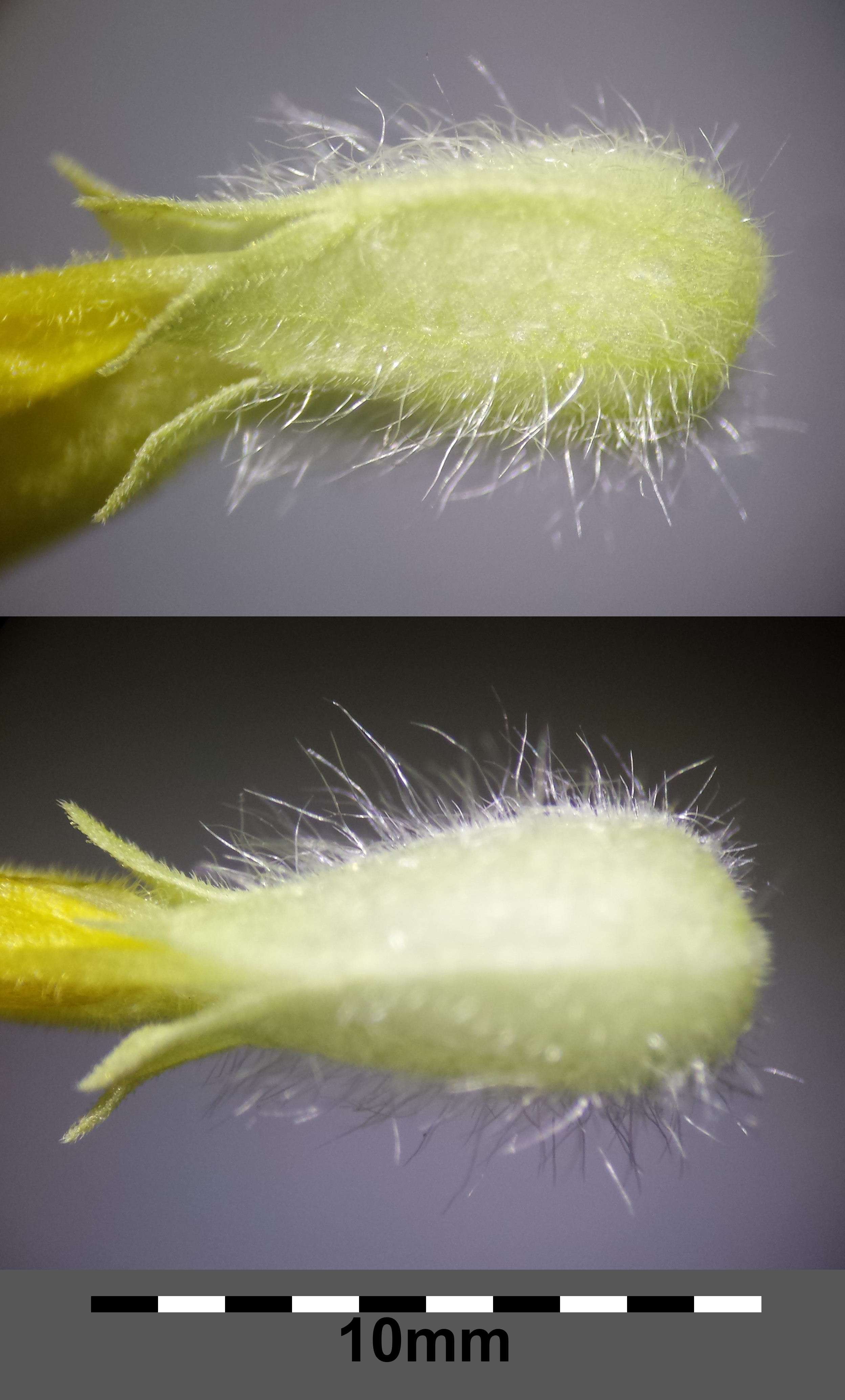 Hairy calyx Taxonym: Rhinanthus alectorolophus subsp. alectorolophus ss Fischer et al. EfÖLS 2008 ISBN 978-3-85474-187-9 Location: Steinberg near Niederhollabrunn, district Korneuburg, Lower Austria - ca. 375 m a.s.l. Habitat: semi-dry grassland